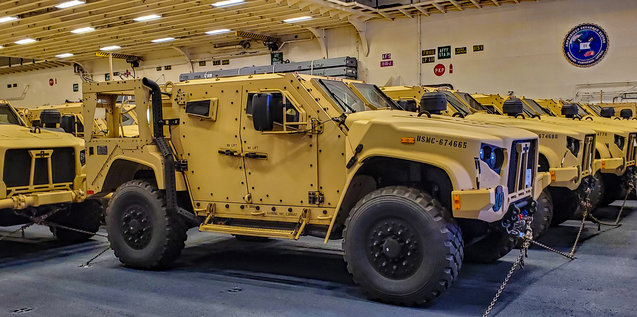 November 10, 2019 Photo: Monica E. Del Coro (TDelCoro)